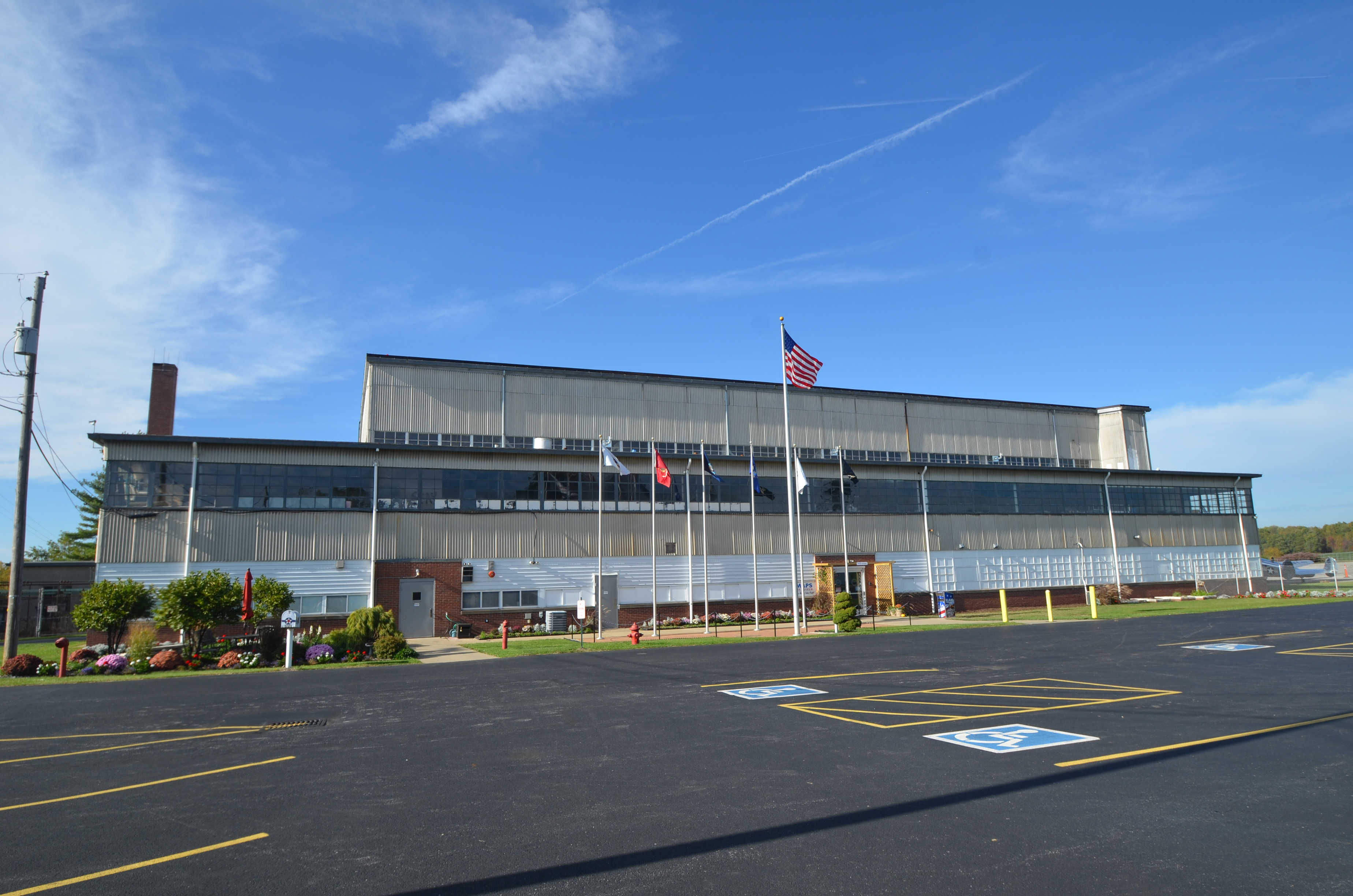 Entrance of the MAP Air Museum